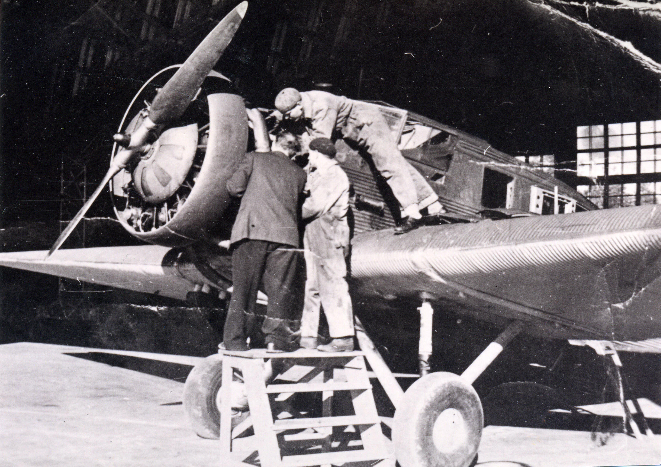 Junkers W 34 at Valtion lentokonetehdas, Kuorevesi, Finland